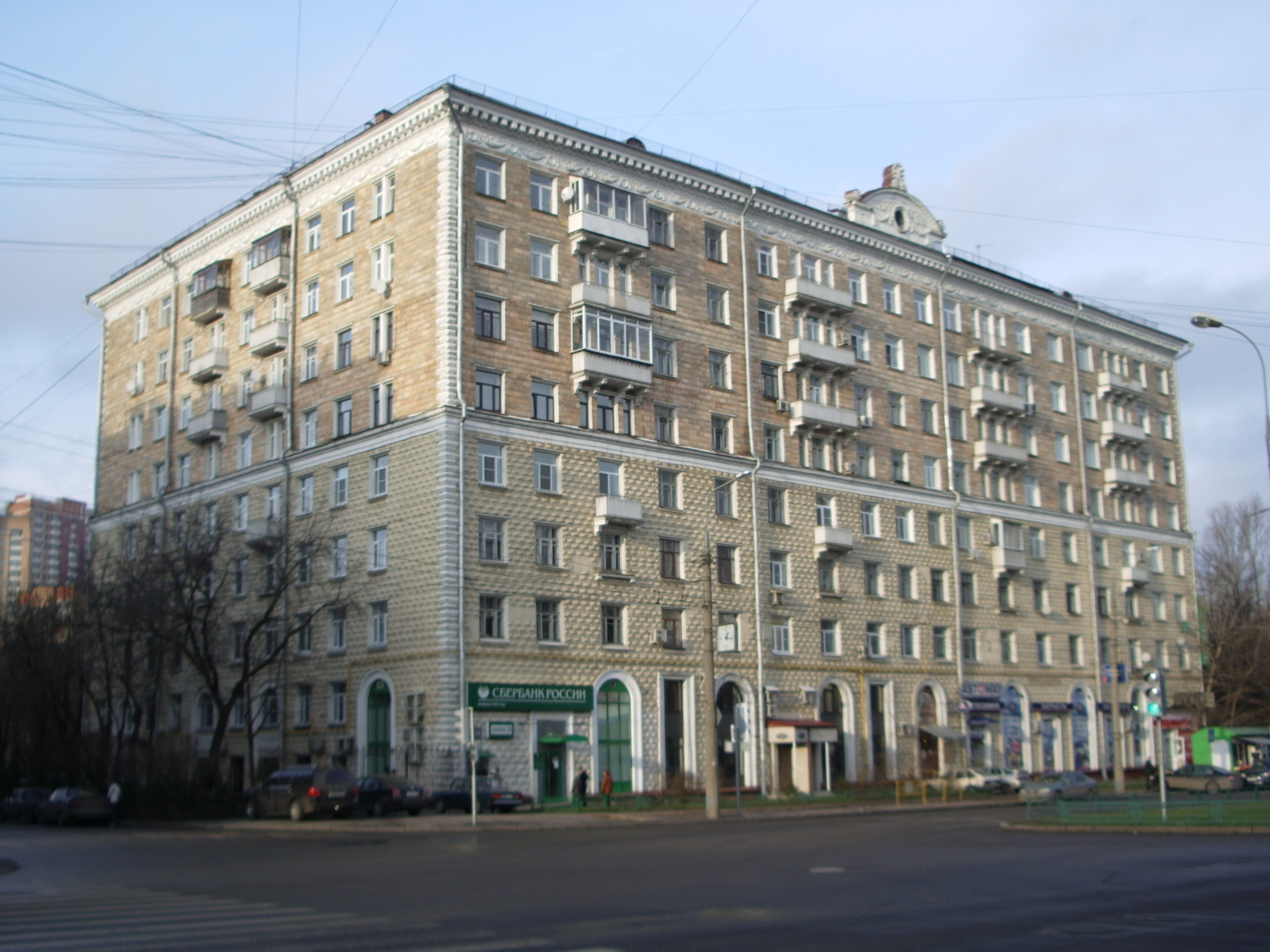 Novopeschanaya street, 14 (Moscow)